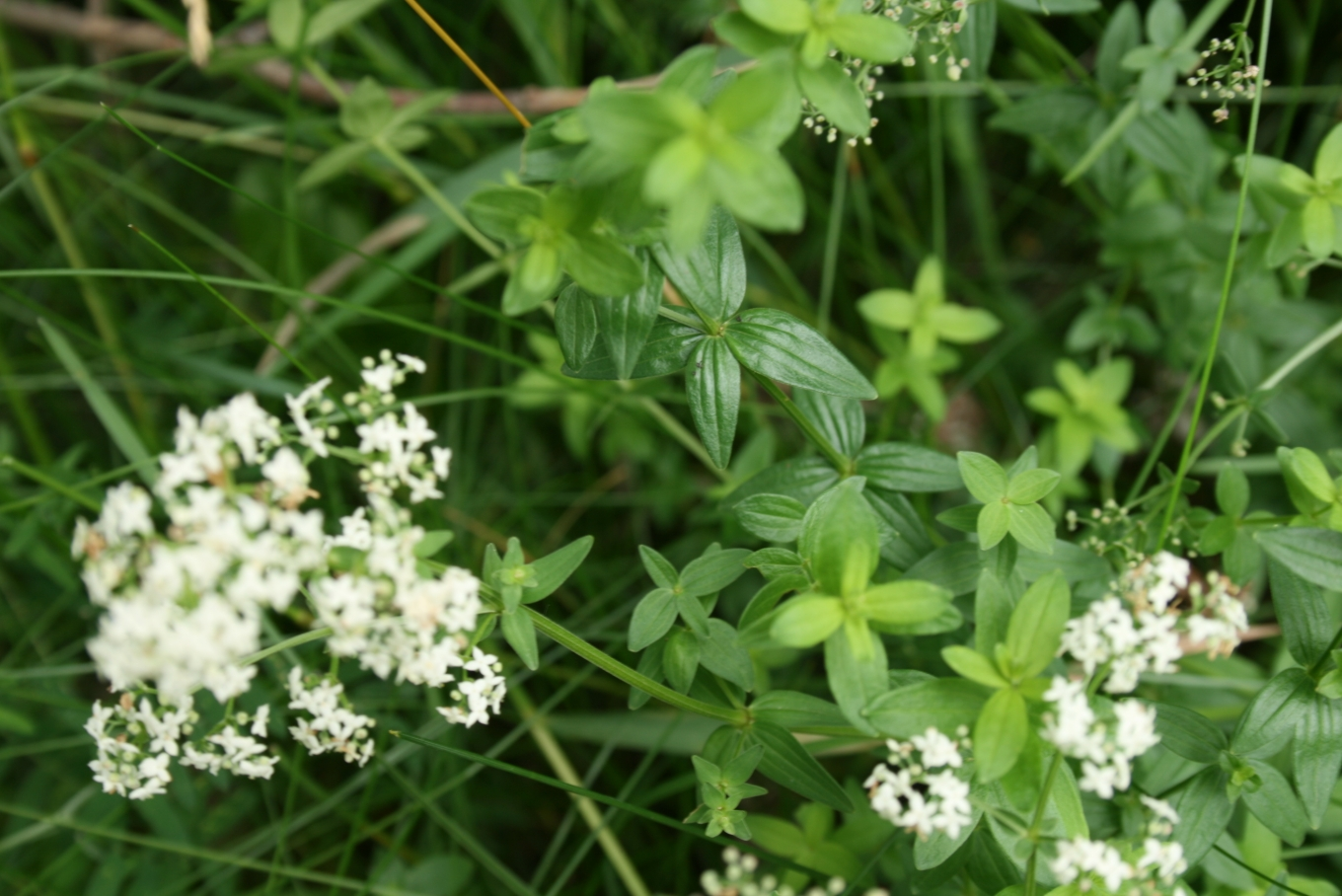 Galium boreale at the village Øer, Jutland